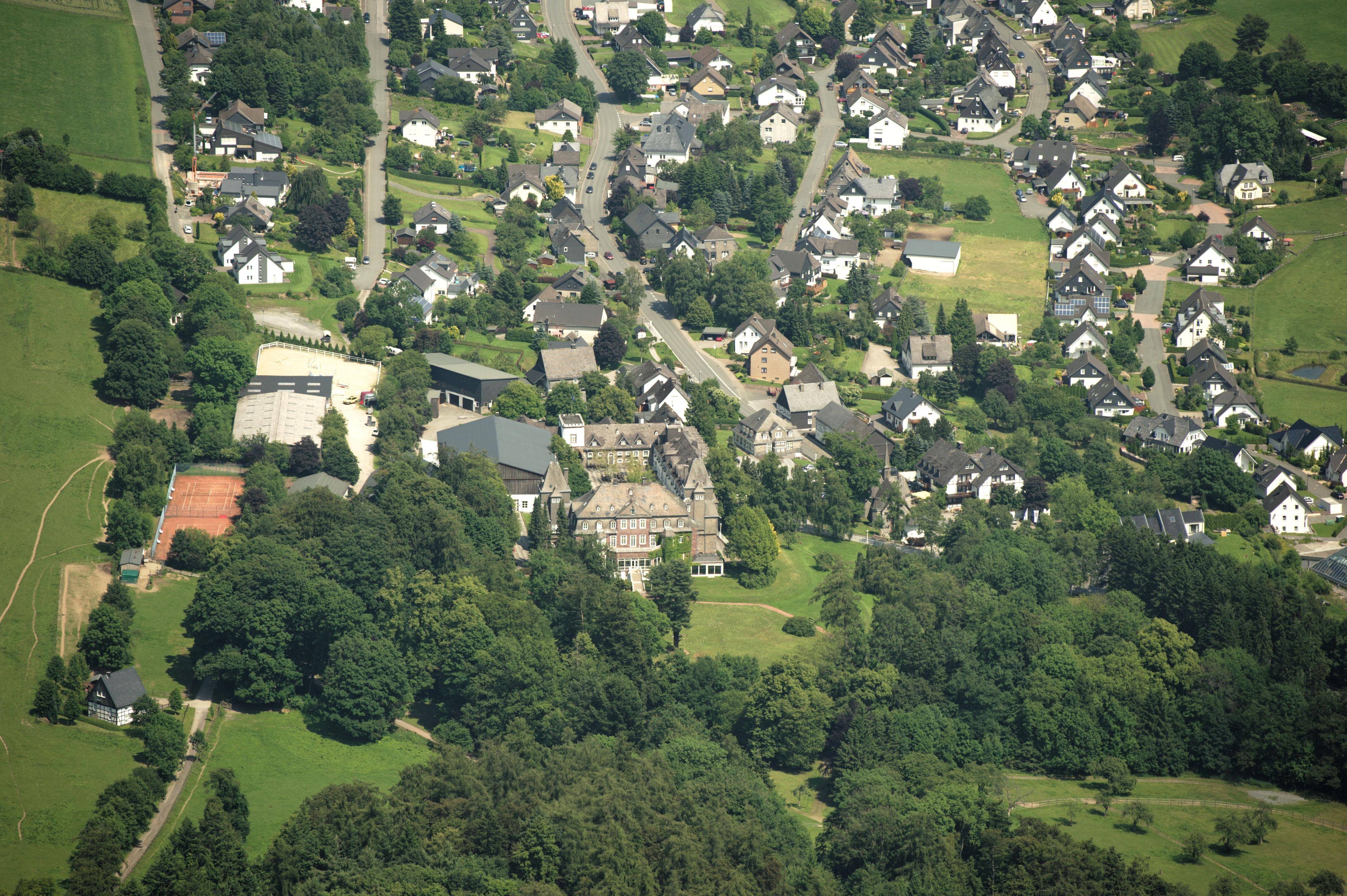 Fotoflug Sauerland-Ost, Schloss Gevelinghausen in Olsberg-Gevelinghausen The making of this document was supported by the Community-Budget of Wikimedia Germany.